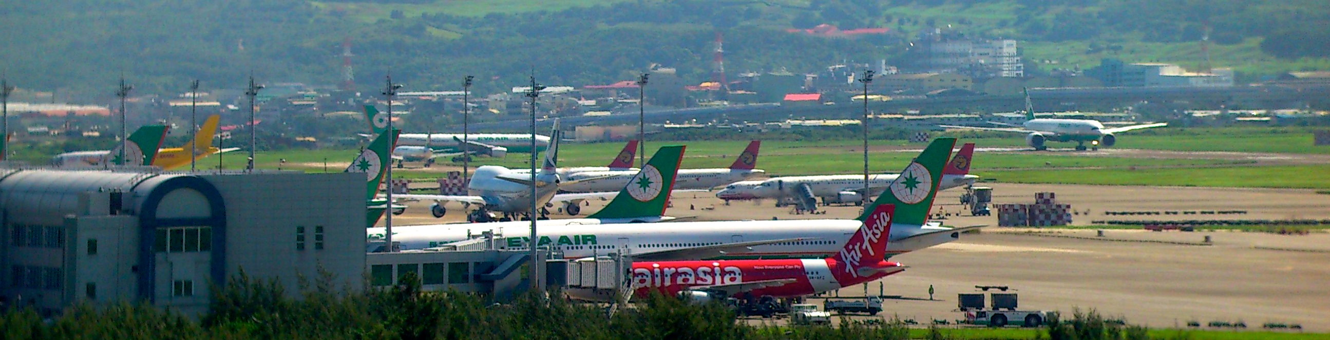 Morning rush hour at TPE